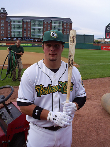 Photo by Craig Michaud. This is Travis Snider when he played for the New Hampshire Fisher Cats 22:55, 10 February 2009 . . Craig Michaud . . 375×500 (132 KB)